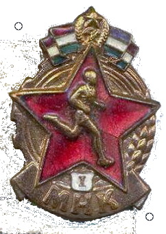 Ready for Labour and Defence of Hungary